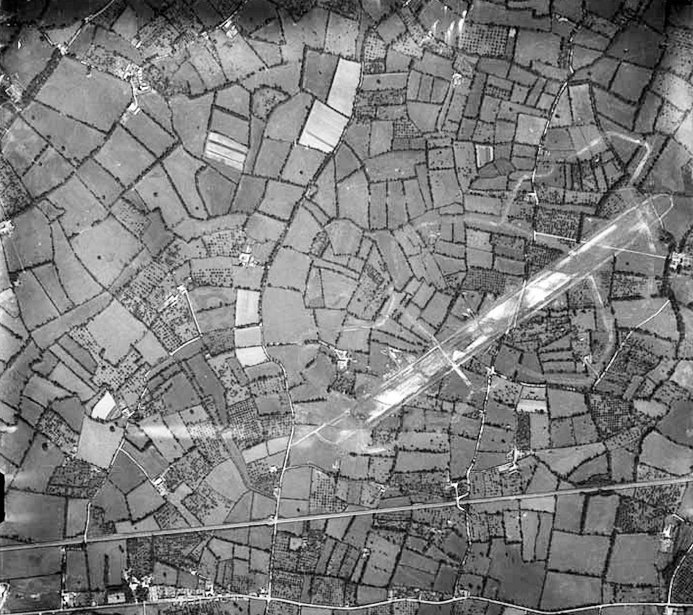 Chippelle Airfield - A5 France